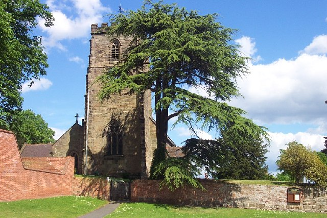 St. Peter, Netherseale